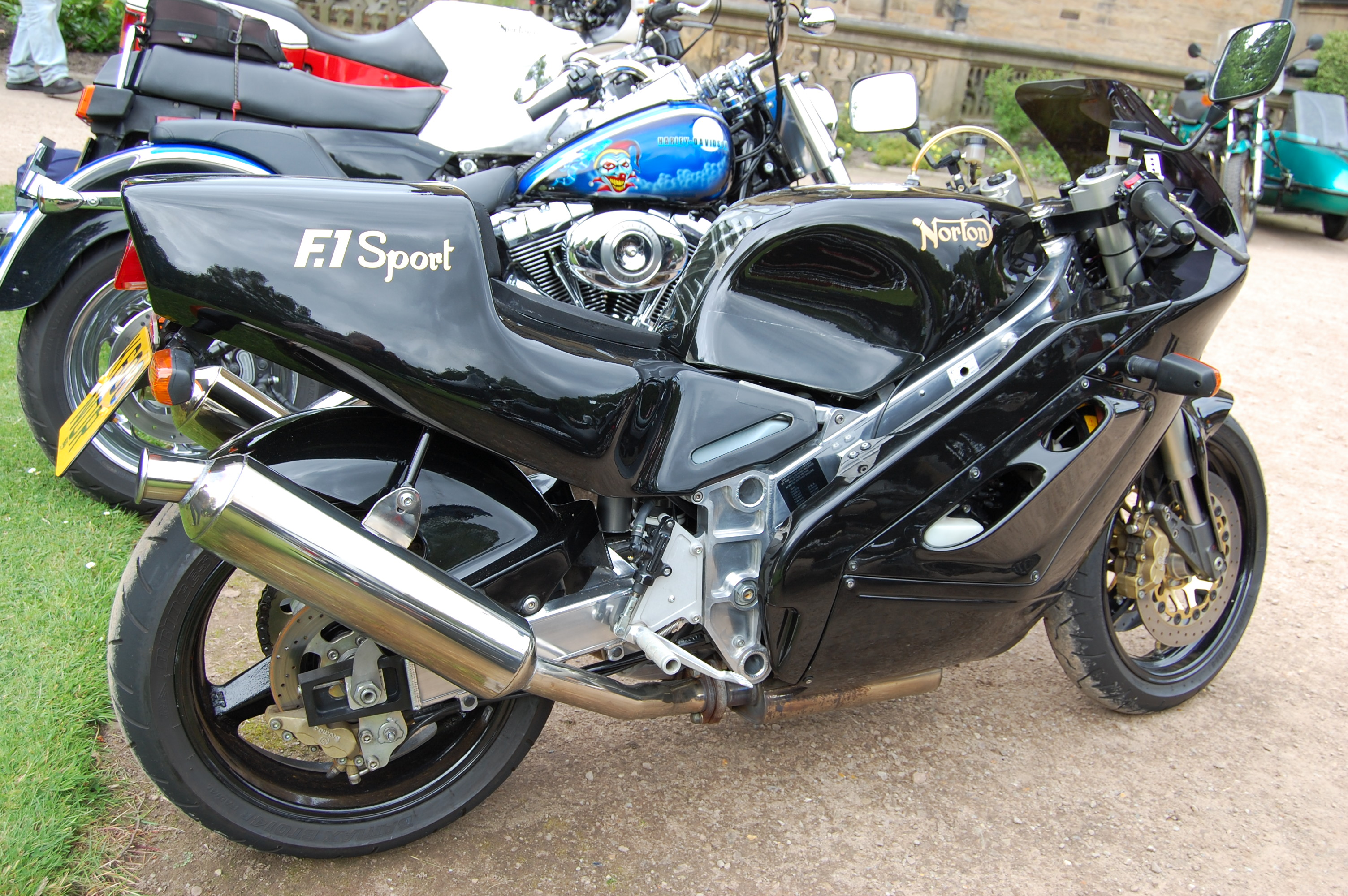 The F1 was a road-going sports model that Norton based on its successful RCW588 racing motorcycle. The F1 was offered in only one livery: black with gold decals and grey and gold stripes, to reflect John Player's sponsorship of Norton's successful race team. Manufacturer Norton Motors Limited Also called P55 Production 1990–1991 Engine 588 cc water-cooled twin-rotor Wankel engine Power 96 BHP (70 kW) Transmission duplex primary chain, 5-ratio gearbox, single-row final drive chain Wheelbase 1465mm Dimensions L 2060mm W 740mm H 1130mm Fuel capacity 20 litres